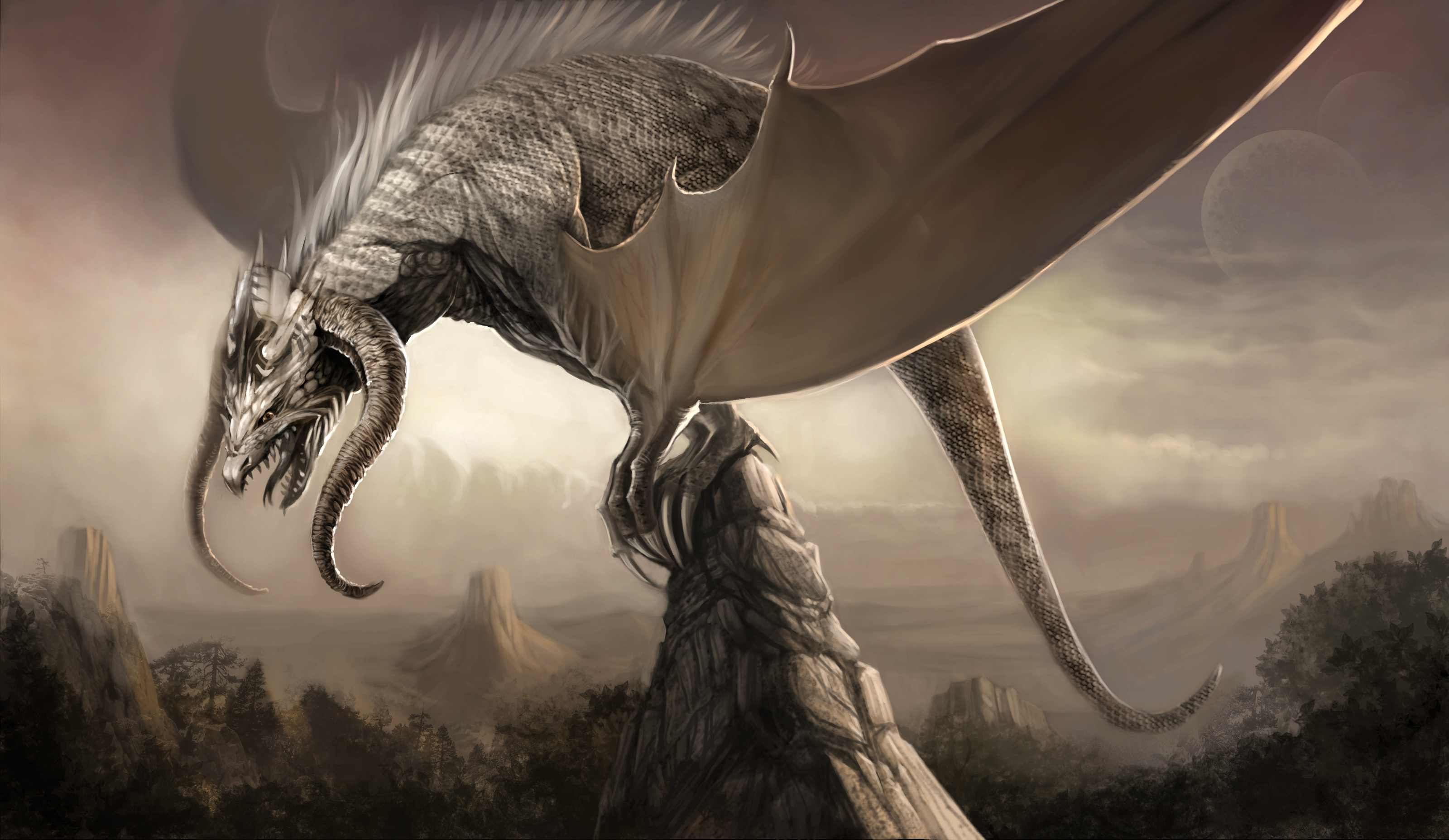 Concept-art done for Sintel , 3rd open-movie of the Blender Foundation. Artwork : David Revoy. Artwork made with Gimp-painter 2.6 and Mypaint 0.7.